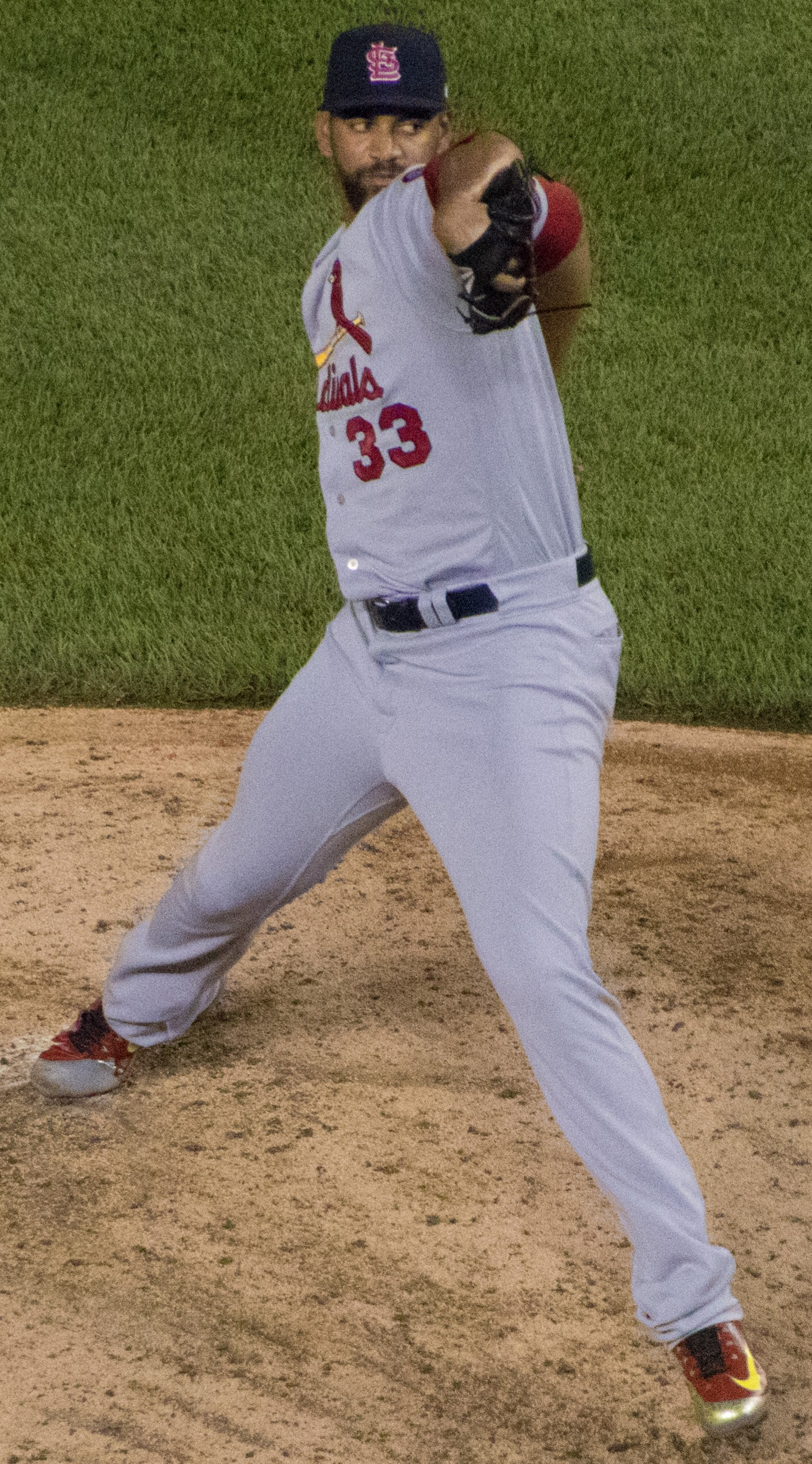 Tyson Ross